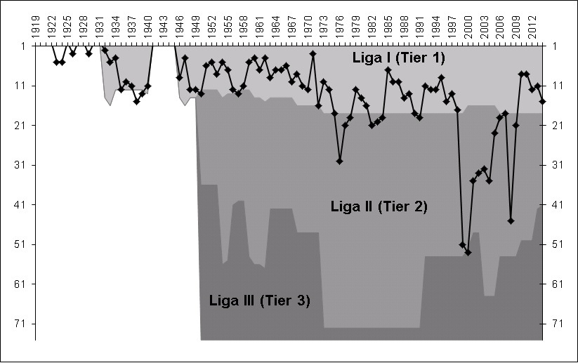 "U" Cluj-Napoca Romanian Football League position history.